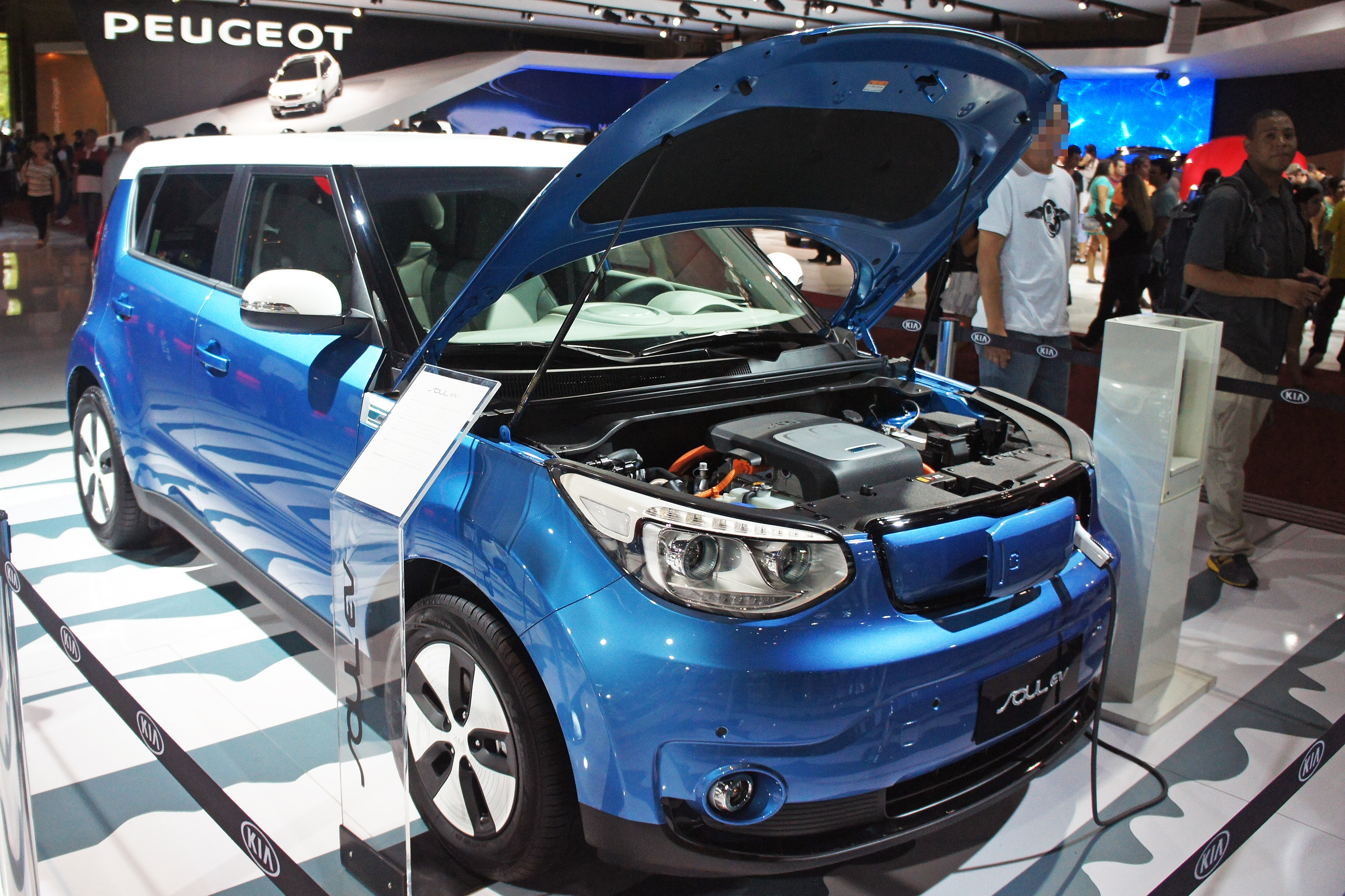 Kia Soul EV electric car exhibited at the Salão Internacional do Automóvel 2014 São Paulo, Brazil